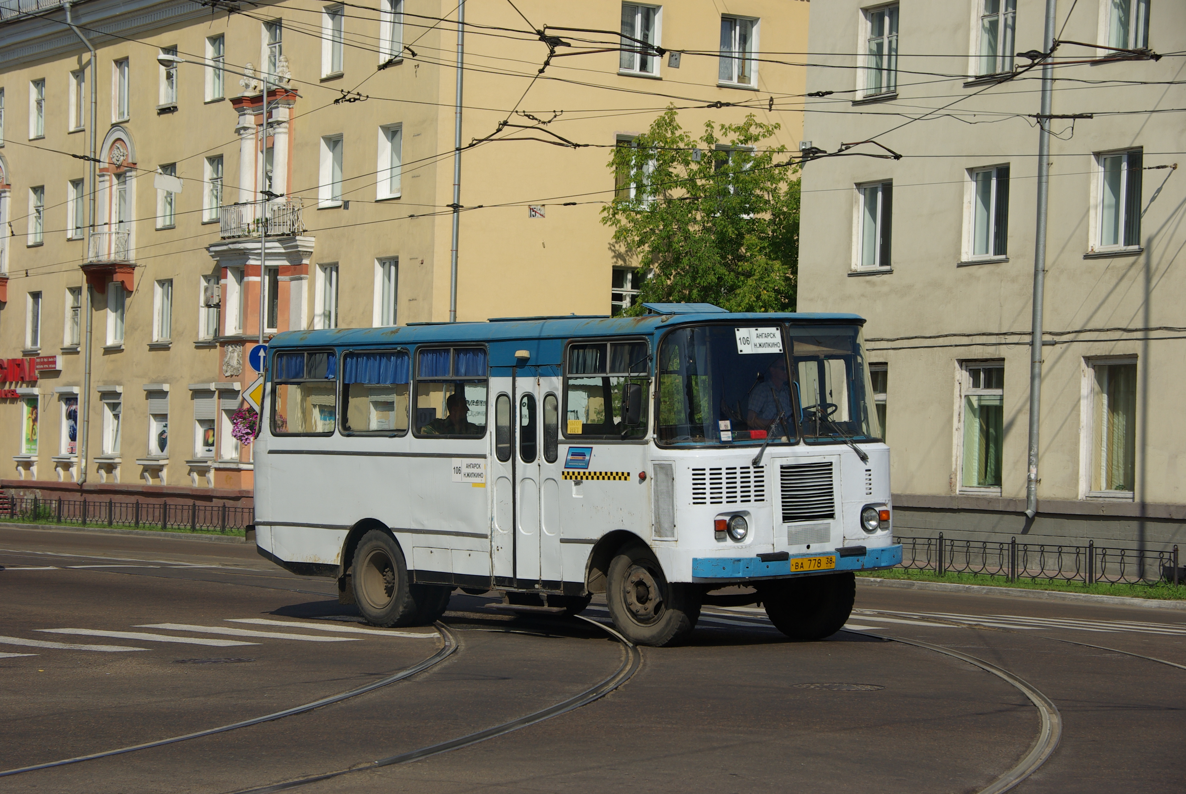 Rodnik 3230 bus.